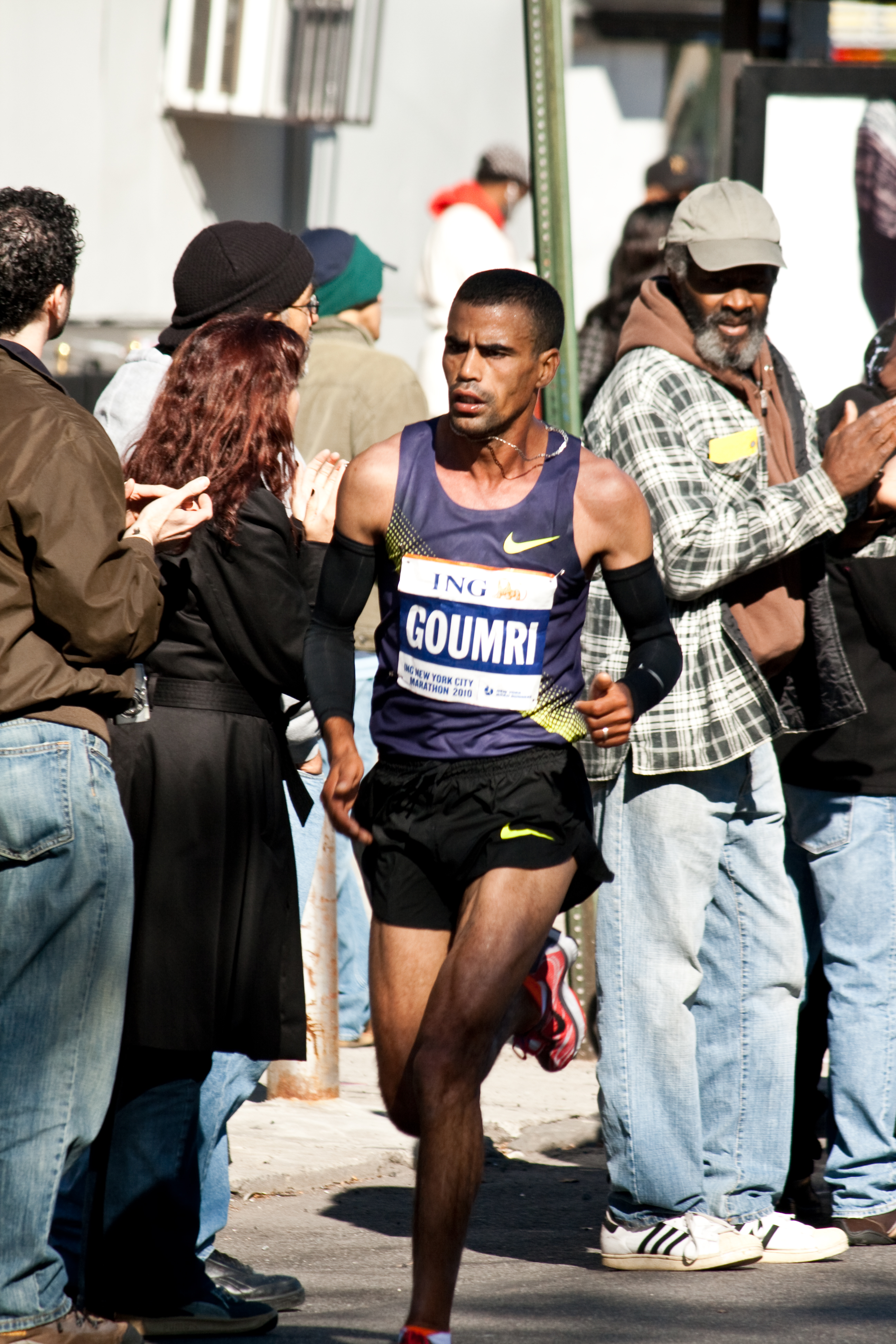 Moroccan Abderrahim Goumri at the 2010 New York City Marathon